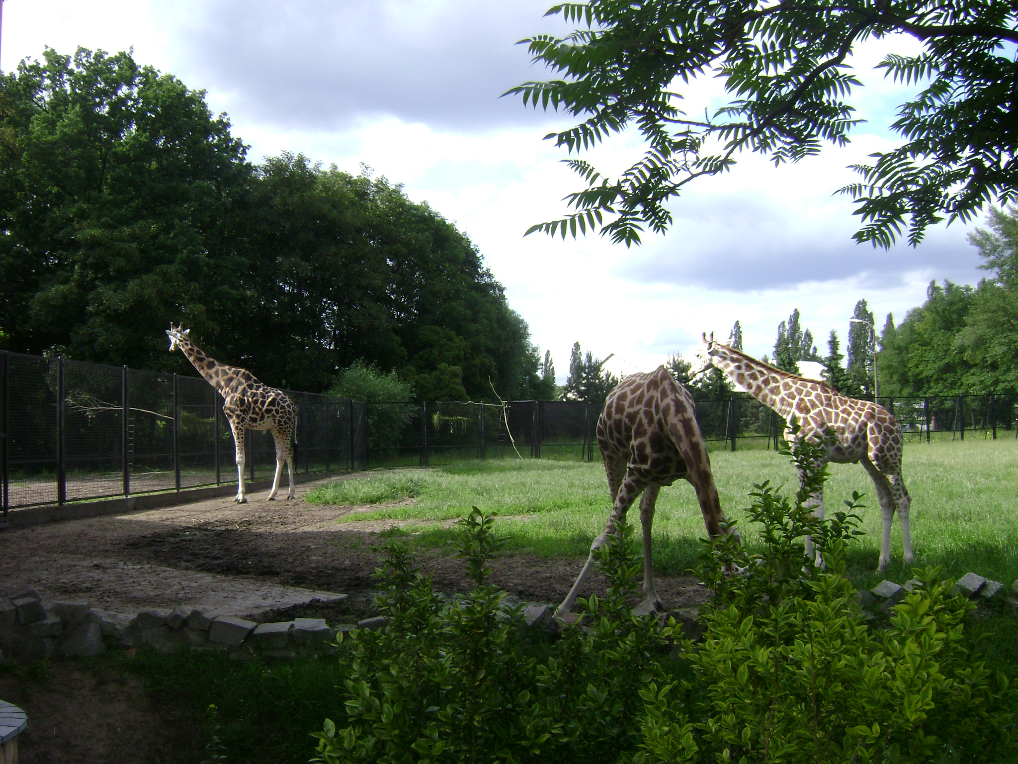 Poland. Warsaw. Praga Północ. ZOO